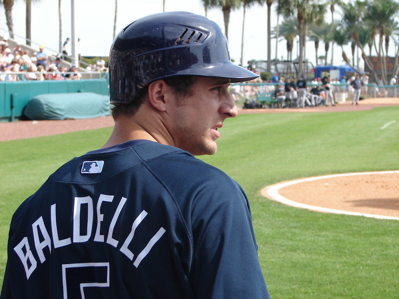 Description Rocco Baldelli on deck at Al Lang FieldDate March 10, 2008Source Own workAuthor SRQman 01:01, 14 March 2008 . . Zeng8r . . 800×600 (145 KB) Rocco Baldelli on deck at Al Lang Field